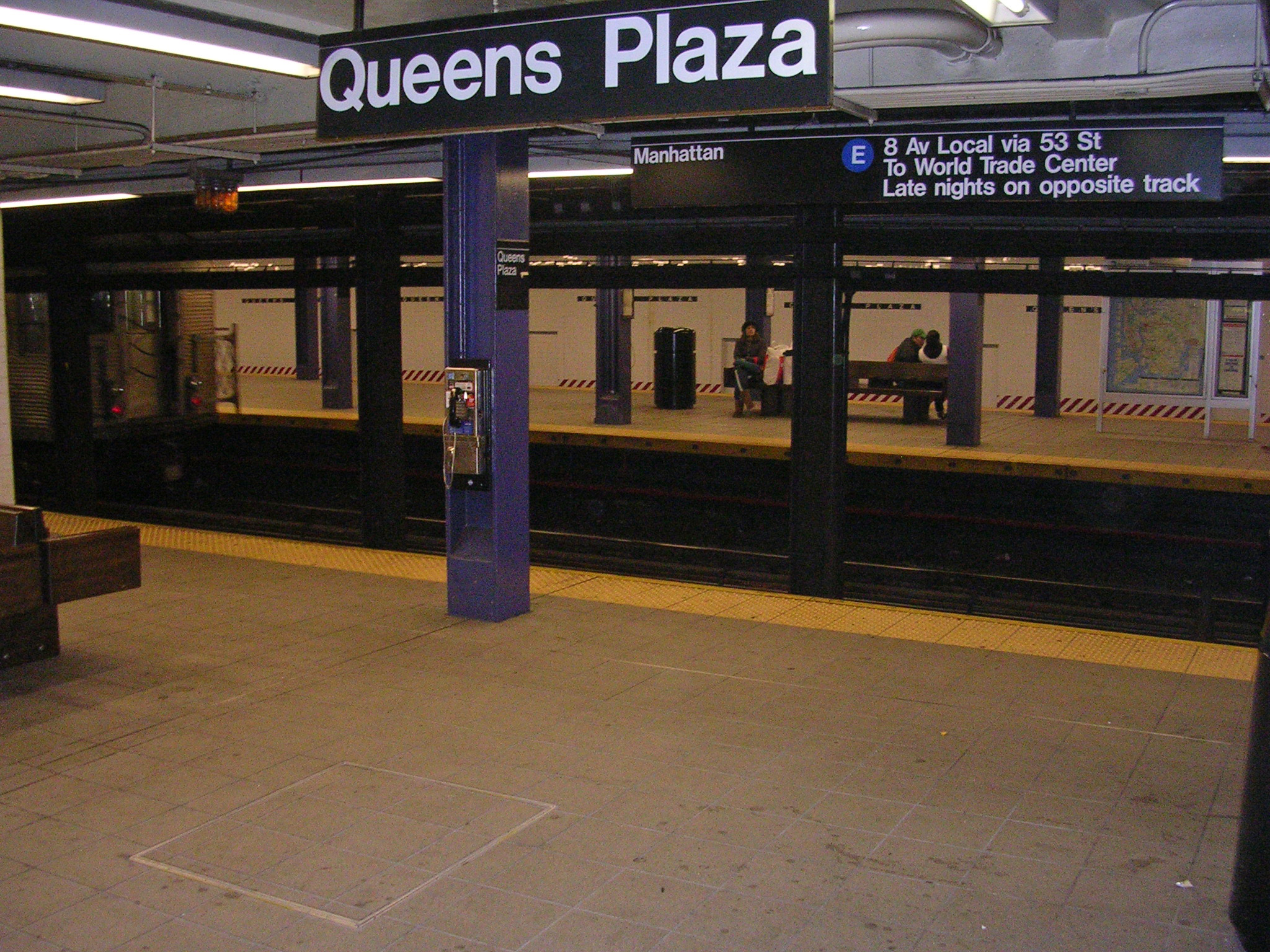 Queens Plaza Subway Station.